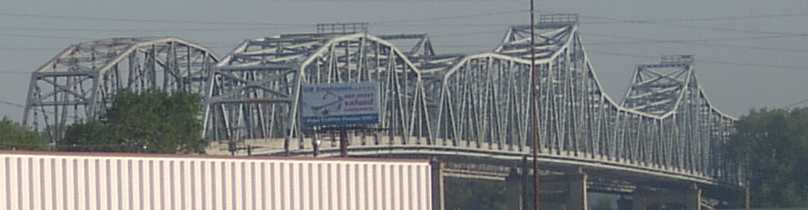 Platte Purchase and Fairfax Bridges over the Missouri River, connecting Platte County, Missouri to Kansas City, Kansas. Photo by Brent Hugh, released into the public domain by the photographer.